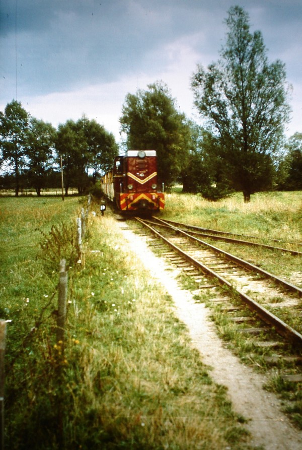 train of PKP, station Prawy Brzeg Wisly, Mikoszewo, Poland